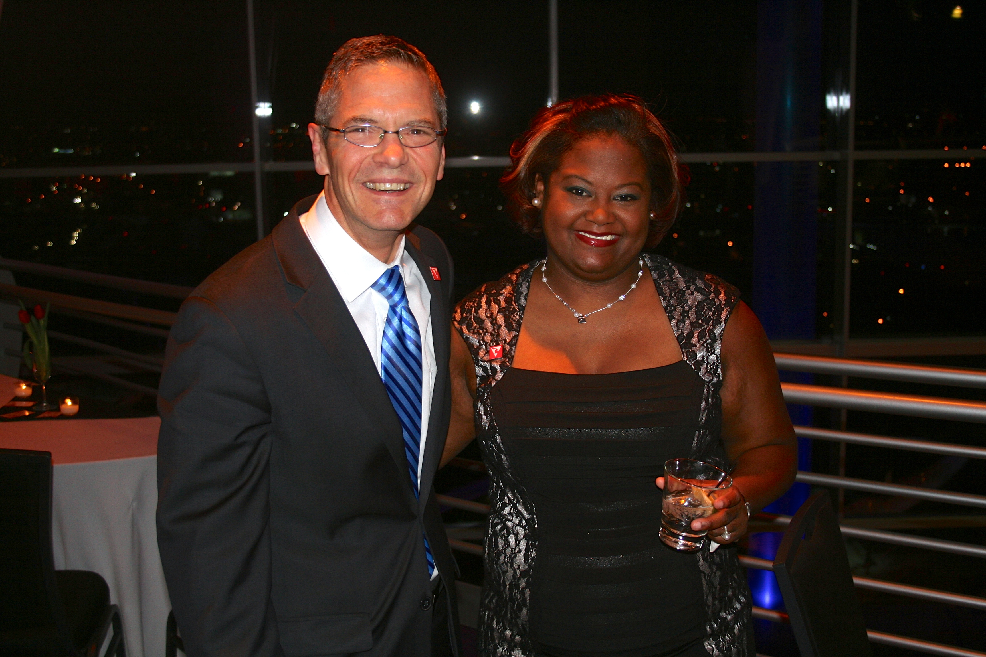 Equality Michigan's 2014 Annual Dinner at the Amnesia Ultra Lounge on the 16th floor of Detroit, Michigan's MotorCity Casino Hotel.